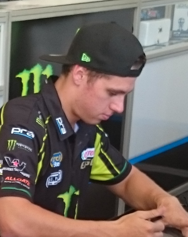 Cameron Waters at the 2016 Clipsal 500 Adelaide.